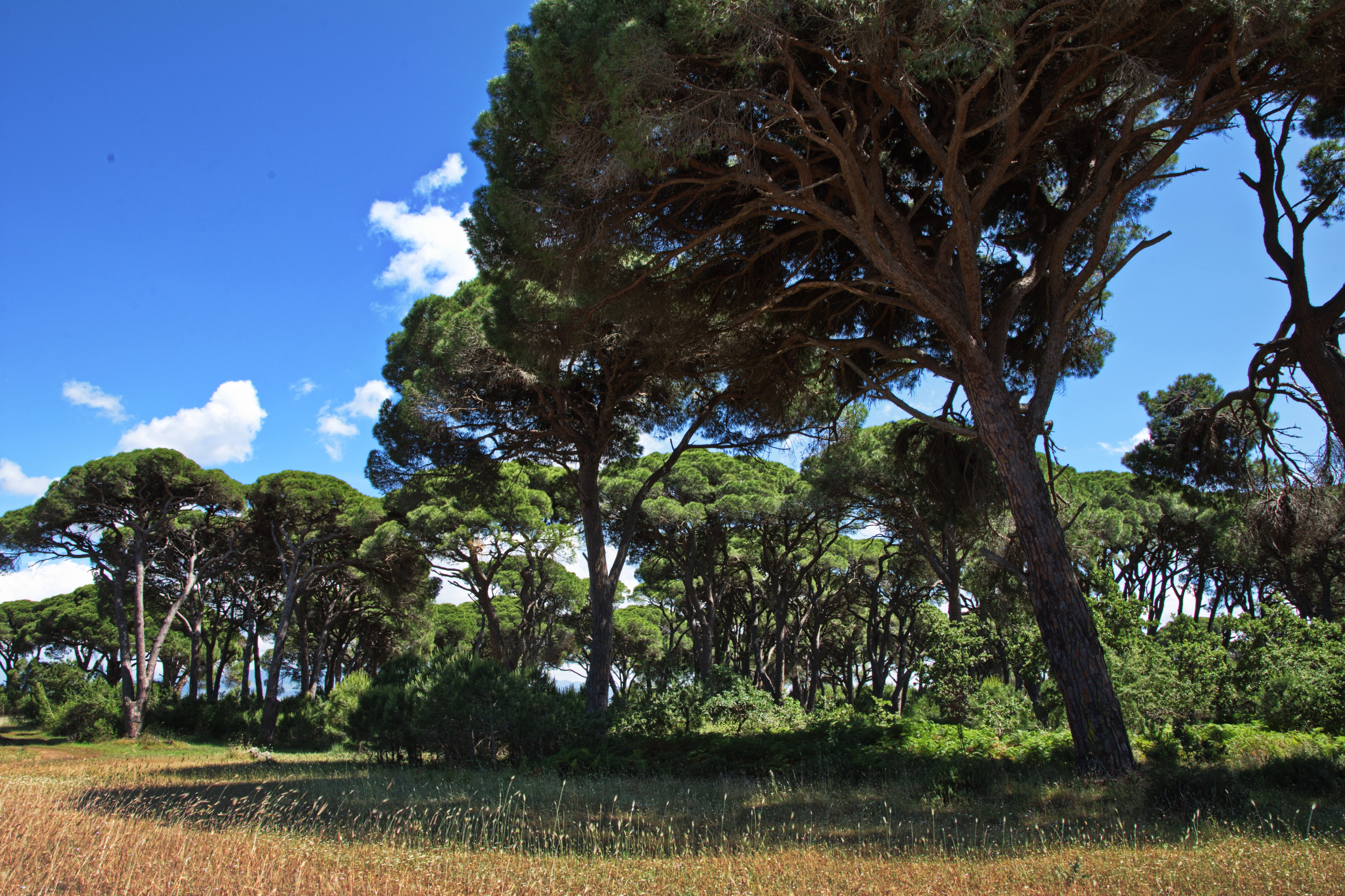 This is a photography of Natura 2000 protected area with ID GR2320001